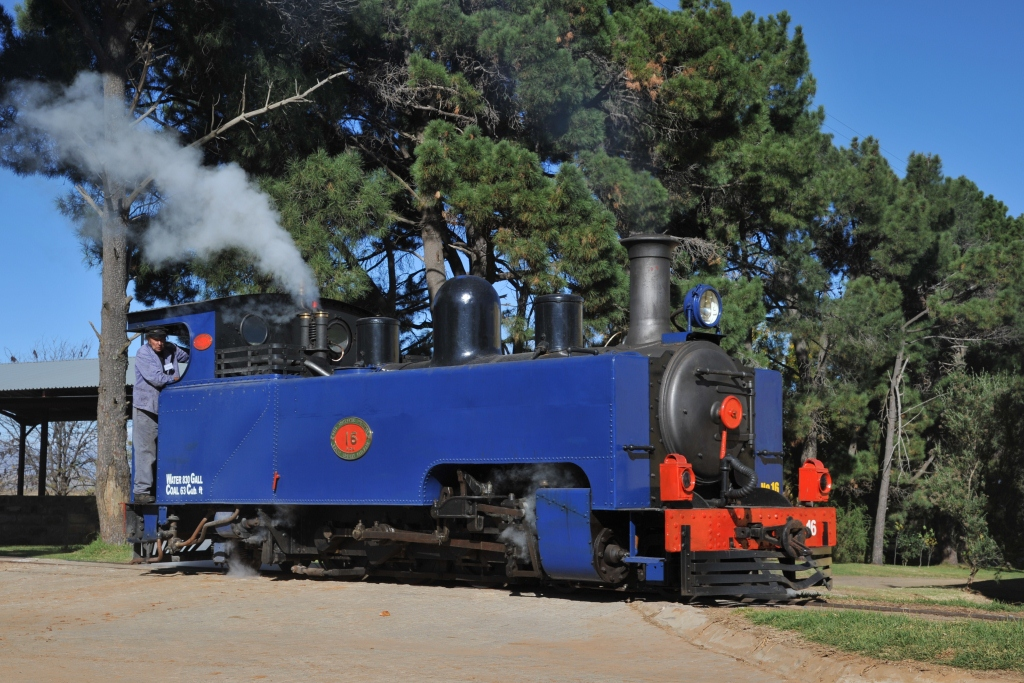 South African Railways Class NG4 4-6-2T no. 16, restored and working at Sandstone Estates